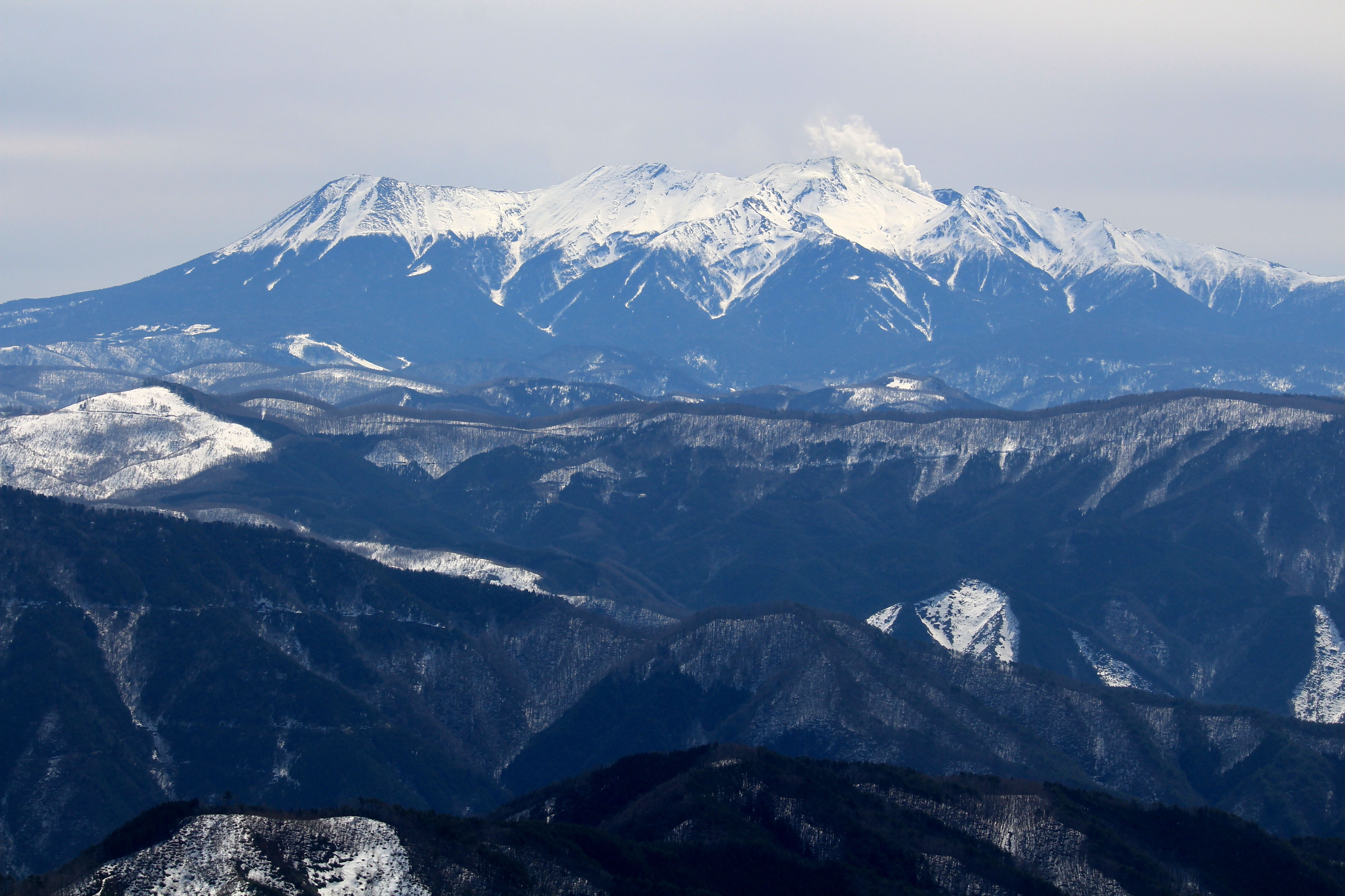 Mount Ontake seen from Mount Funa in Gifu prefecture, Japan.